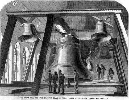 Engraving of the second 'Big Ben', taken from The Illustrated News of the World, December 4 1858